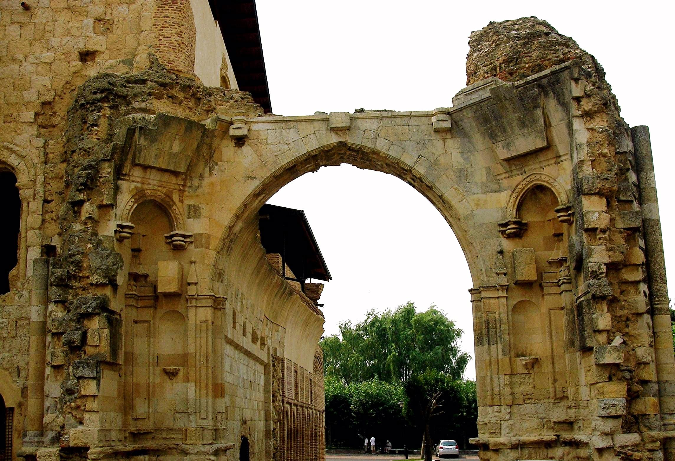 Restos del antiguo Monasterio de San Benito, en Sahagún (León, España)